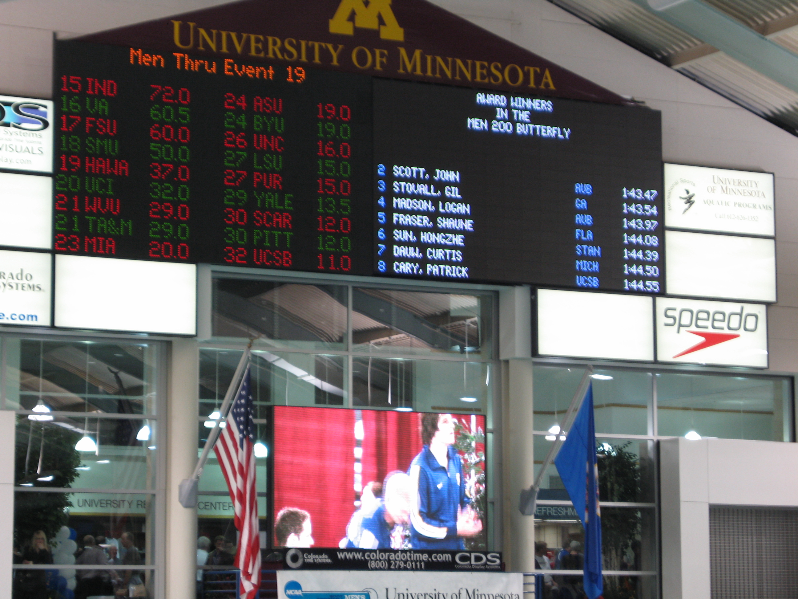 The Colorado Time Systems scoreboards at the University of Minnesota during the 2007 Mens' Division I NCAA Swimming & Diving Championships.